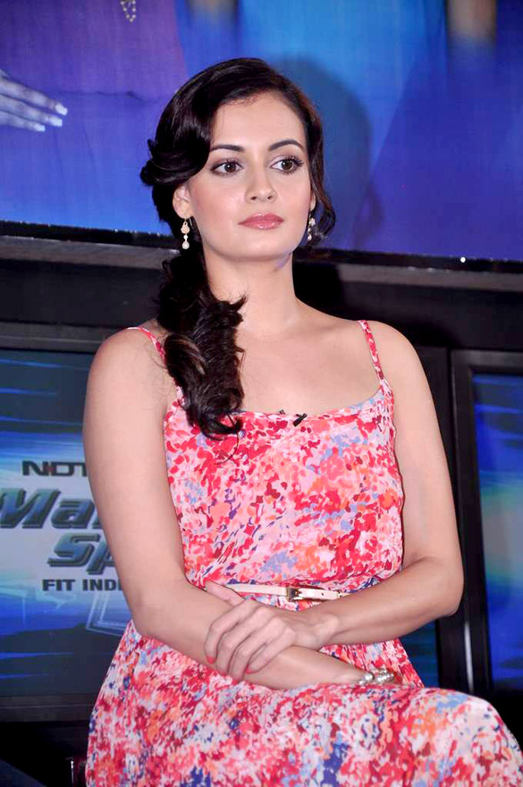 Dia Mirza at the NDTV Marks for Sports event